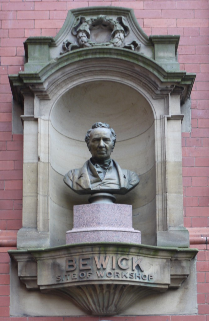 Site of workshop of Thomas Bewick, St Nicolas' Church Yard